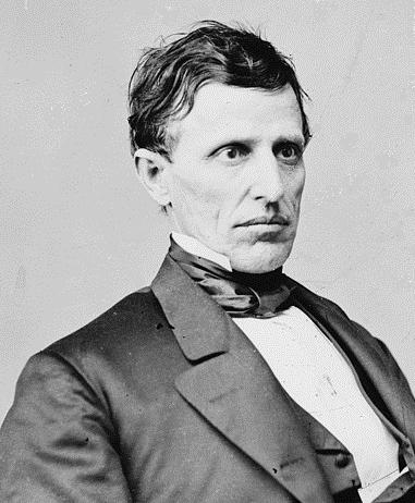 Wells A. Hutchins from Brady Handy Collection.